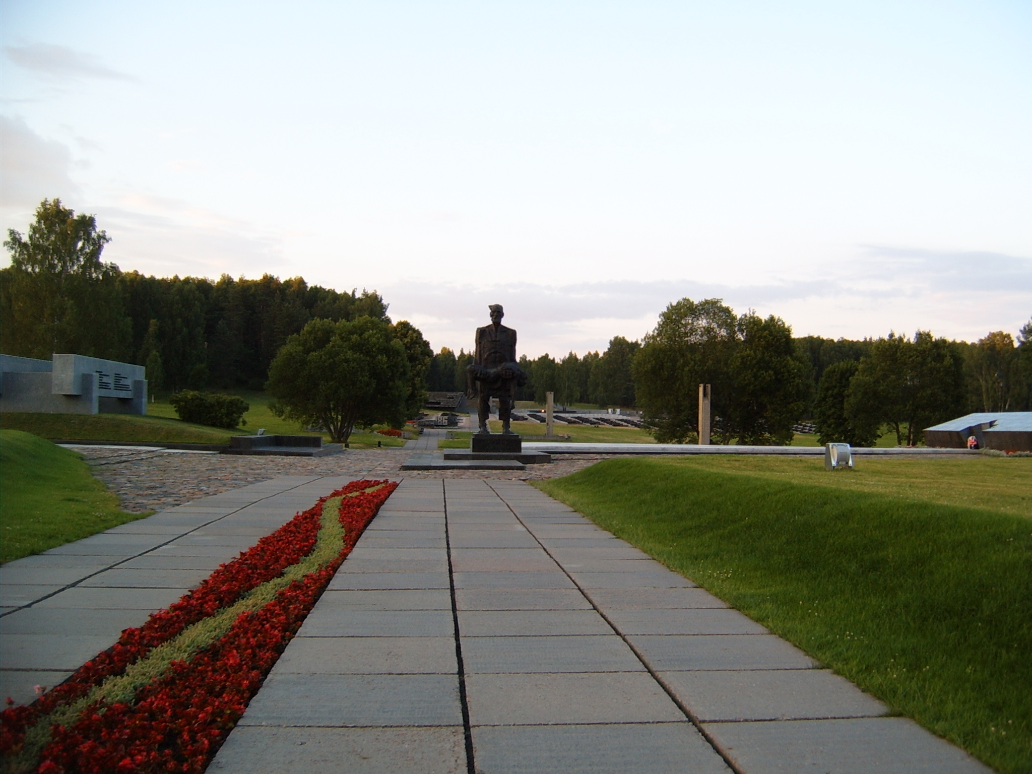 Hatyn, Belarus